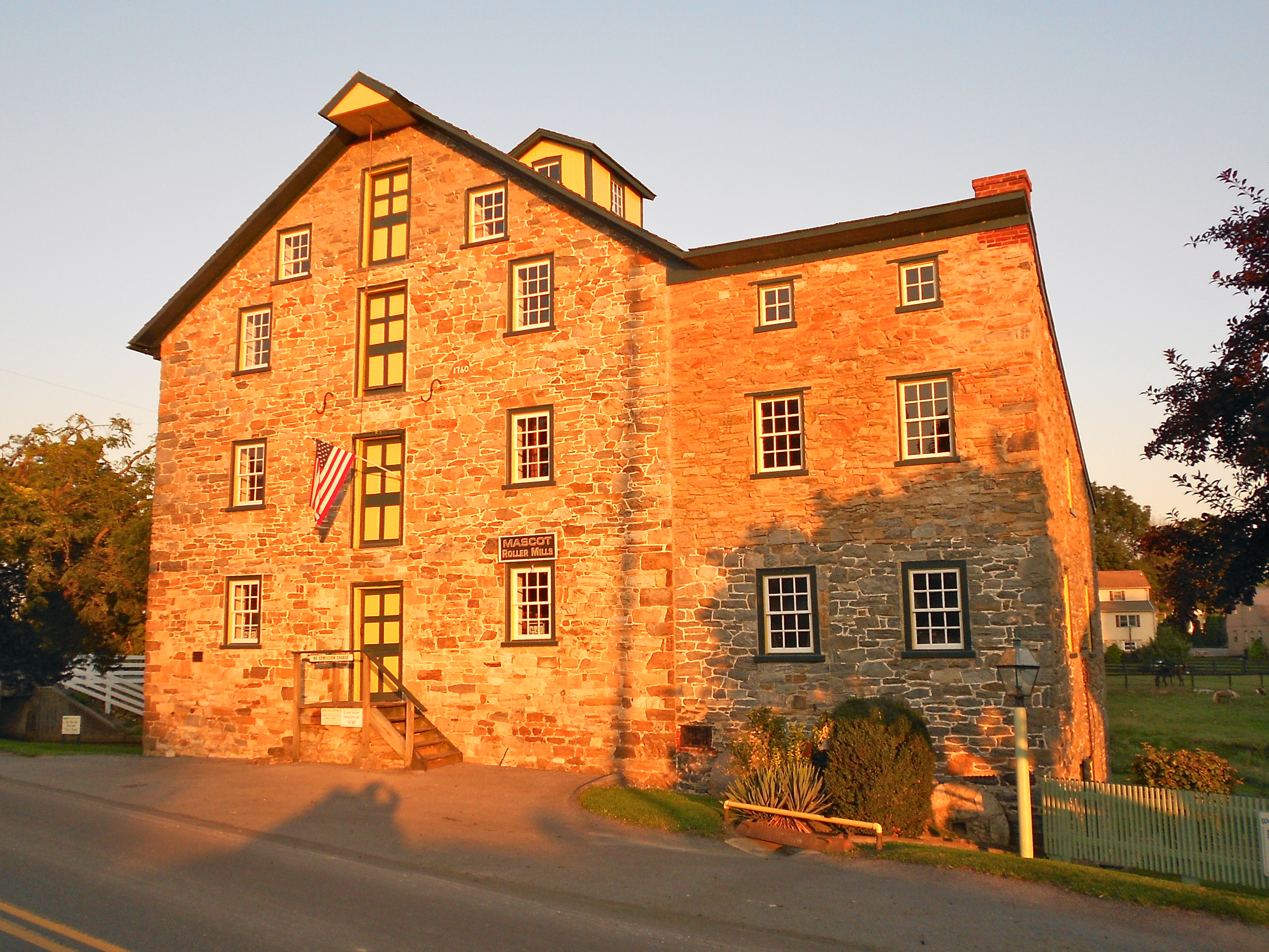 Mascot Roller Mills in NE Lancaster County, Pennsylvania. Photo taken at sunset, which imparts a yellow tint to the building. The "natural color" very grey can be seen in the tree shadow to the right.